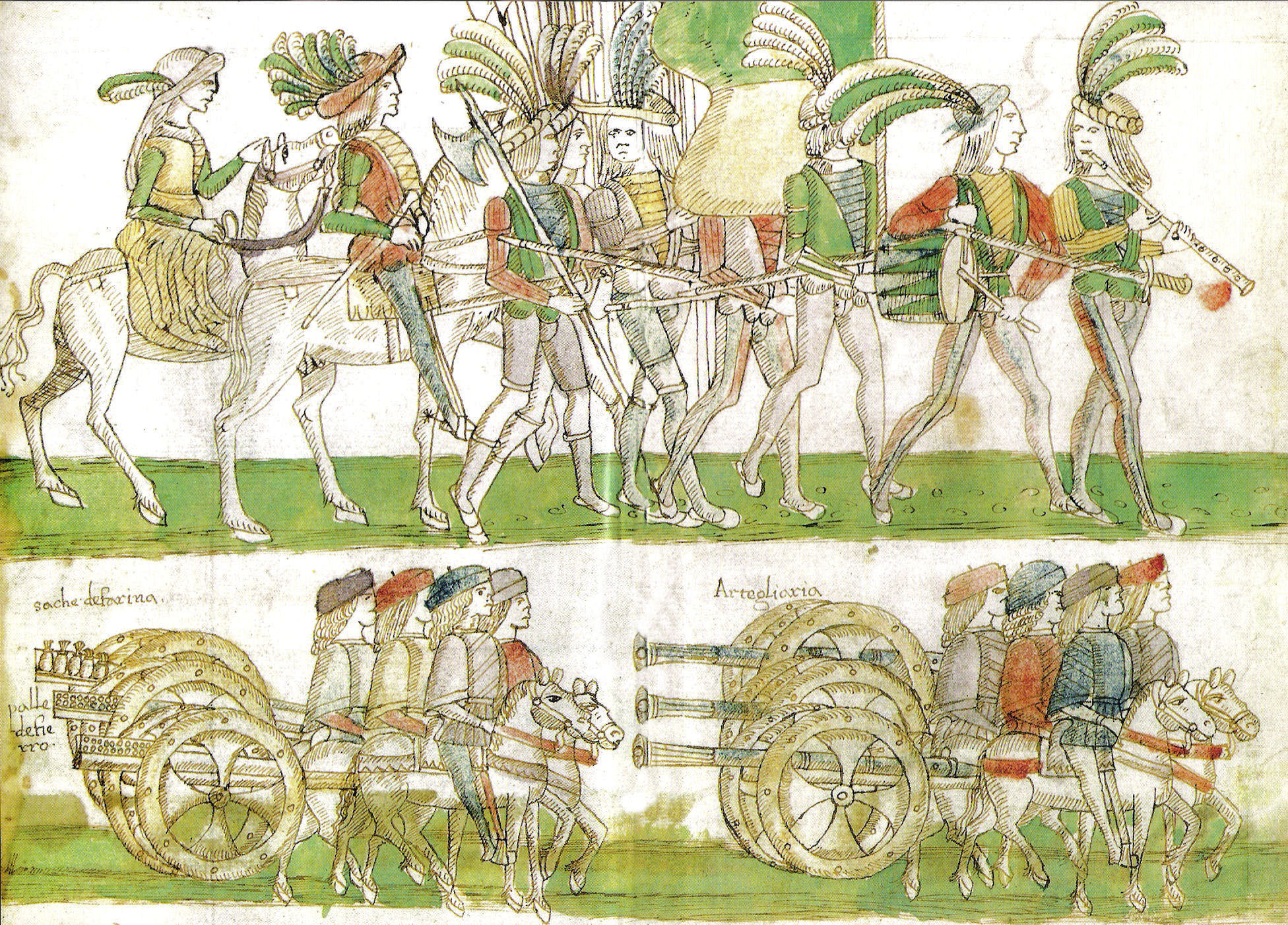 The French troops of Charles VIII and artillery entering Naples in 1495. From the manuscript MS 801 of the Pierpont Morgan Library manuscripts collection. Three Italian inscriptions: sache de farina (flour sacks), Artegliaria (artillery), palle de fierro (iron cannonballs)